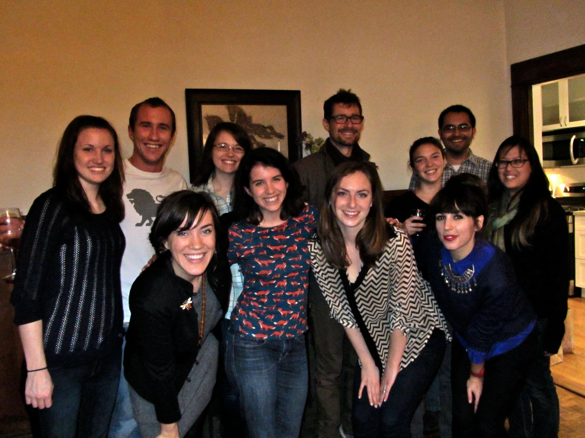 M.U.S.I.E.S 2014